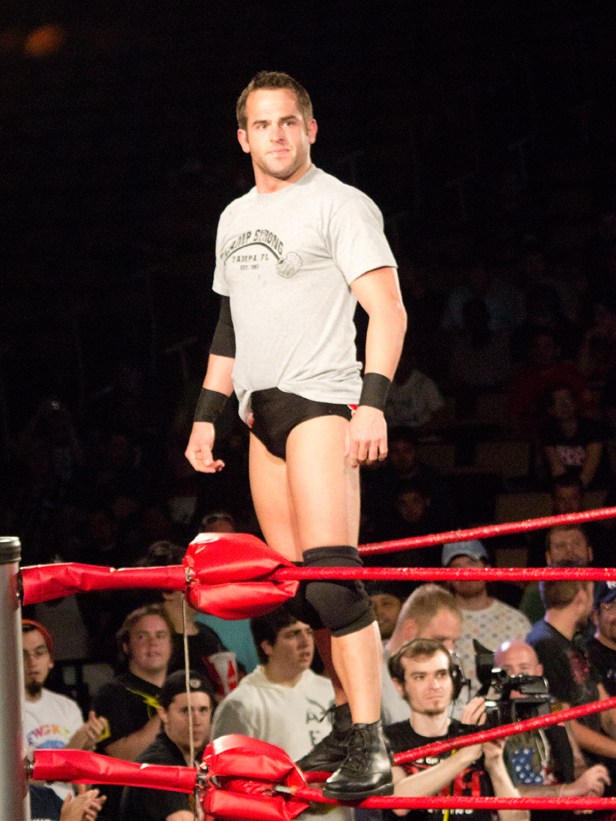 Roderick Strong enters at Showdown in the Sun Night 2 on March 31, 2012. Cropped from origina